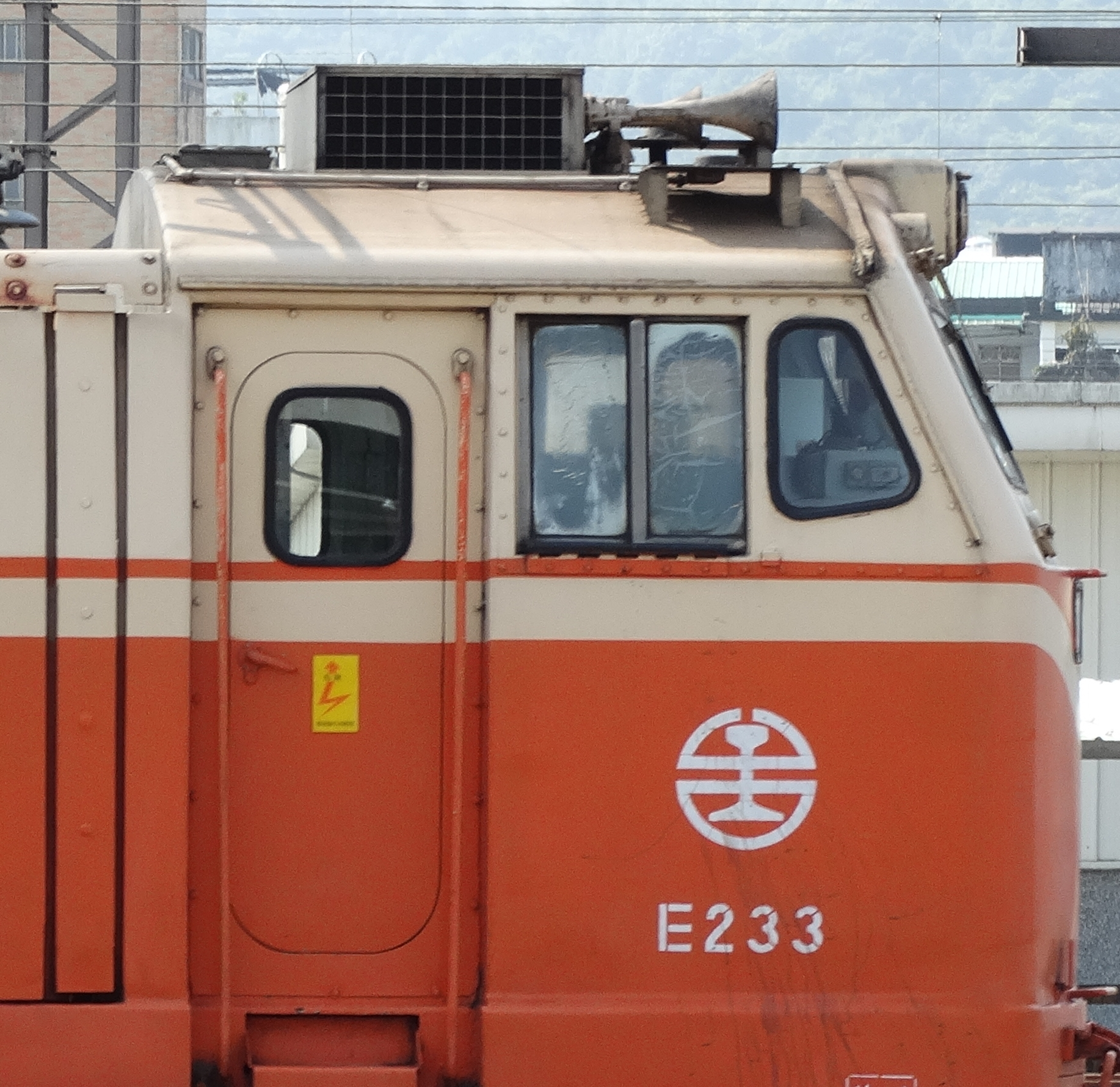 Original version of driver's cab window of TRA E233 electrically-powered locomotive.